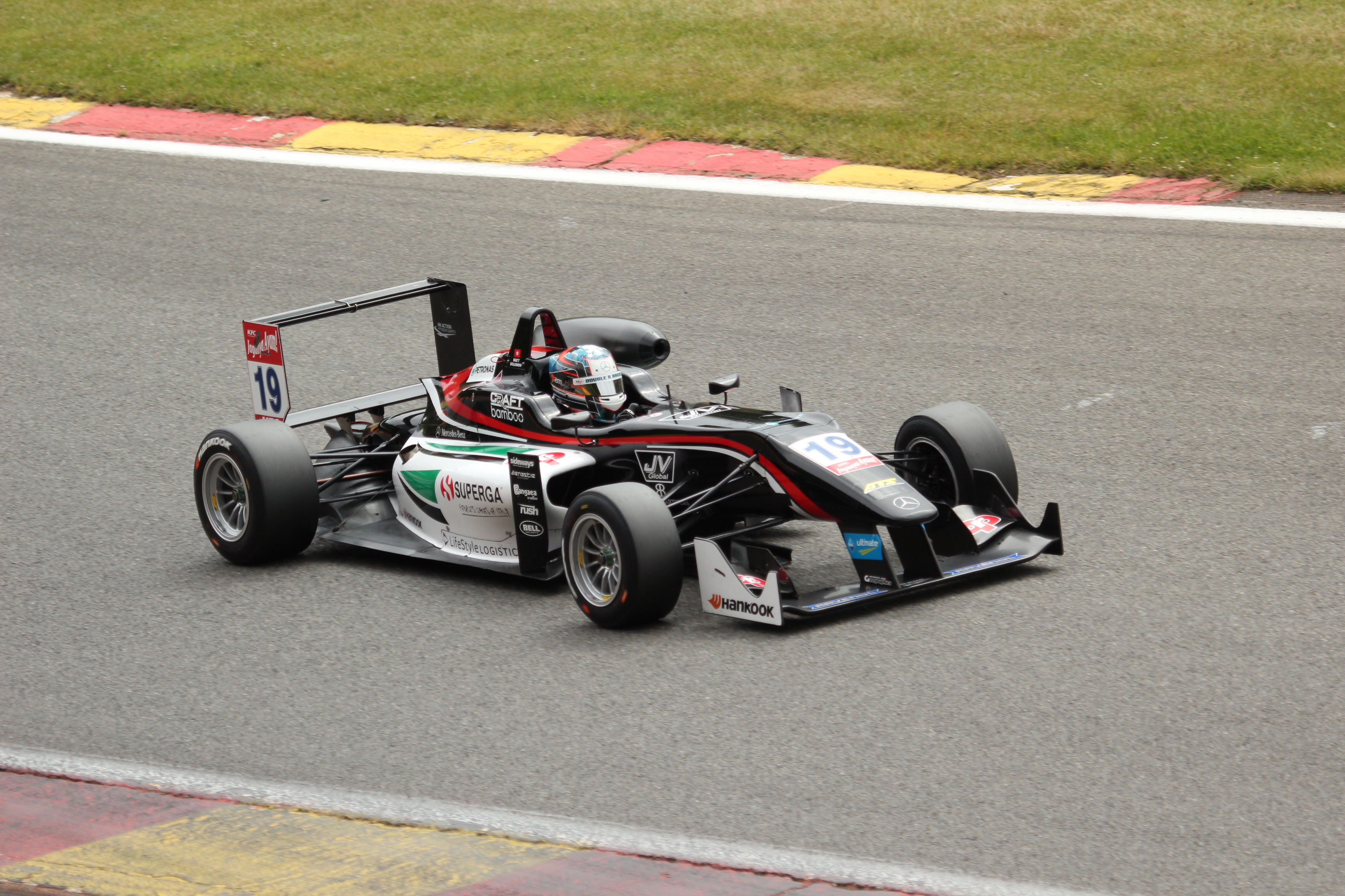 Matt Solomon at Spa in 2015, European Formula 3 Championship